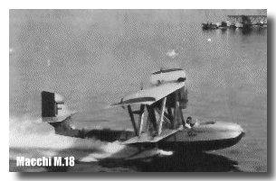 Italian Macchi M.18 flying boat